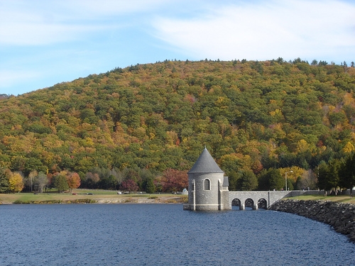 View of Saville Dam (right) and Barkhamsted Reservoir (left), facing east.